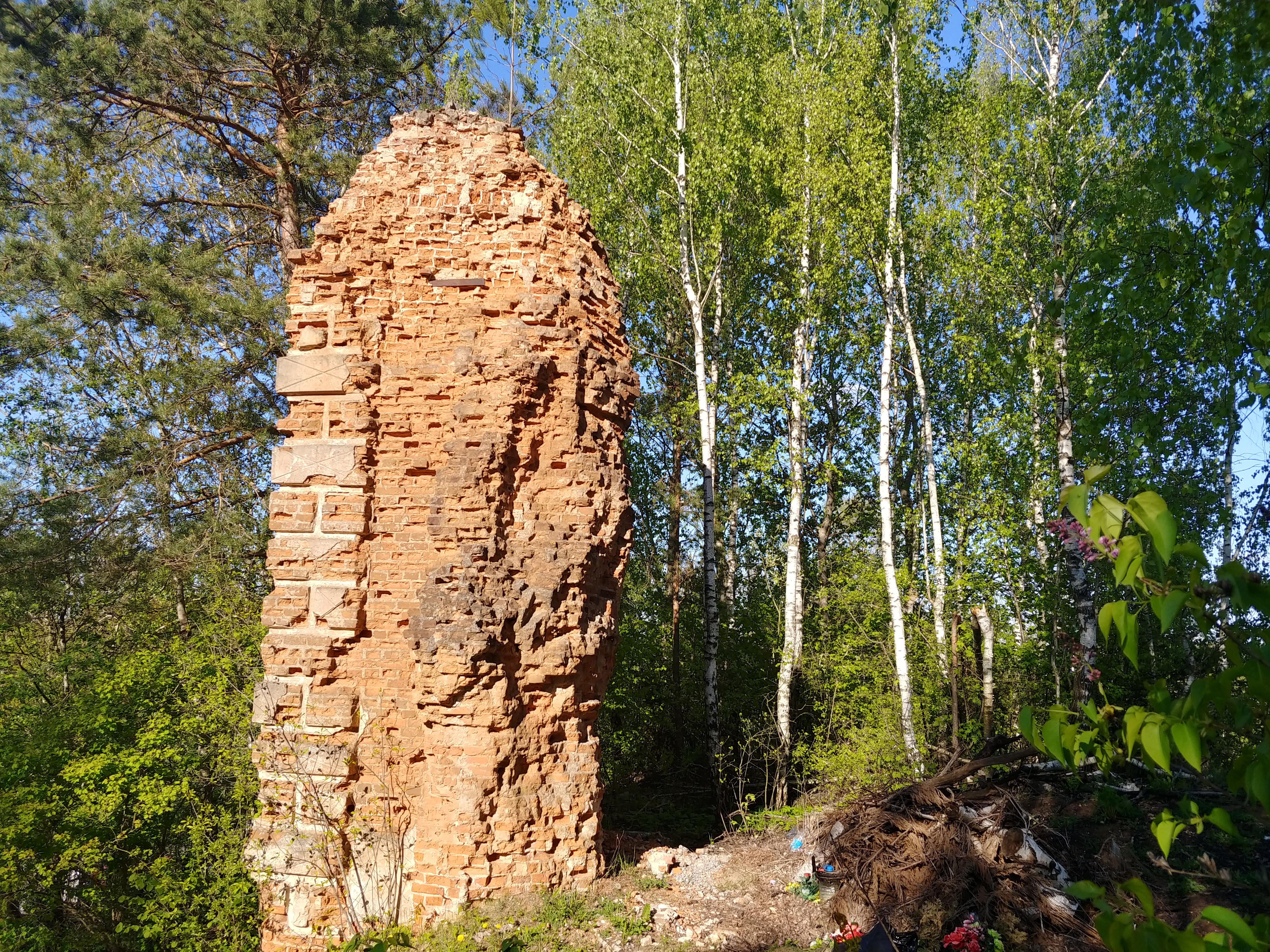 Remains of the Church of St Micolas at the cemetery near Čučany village